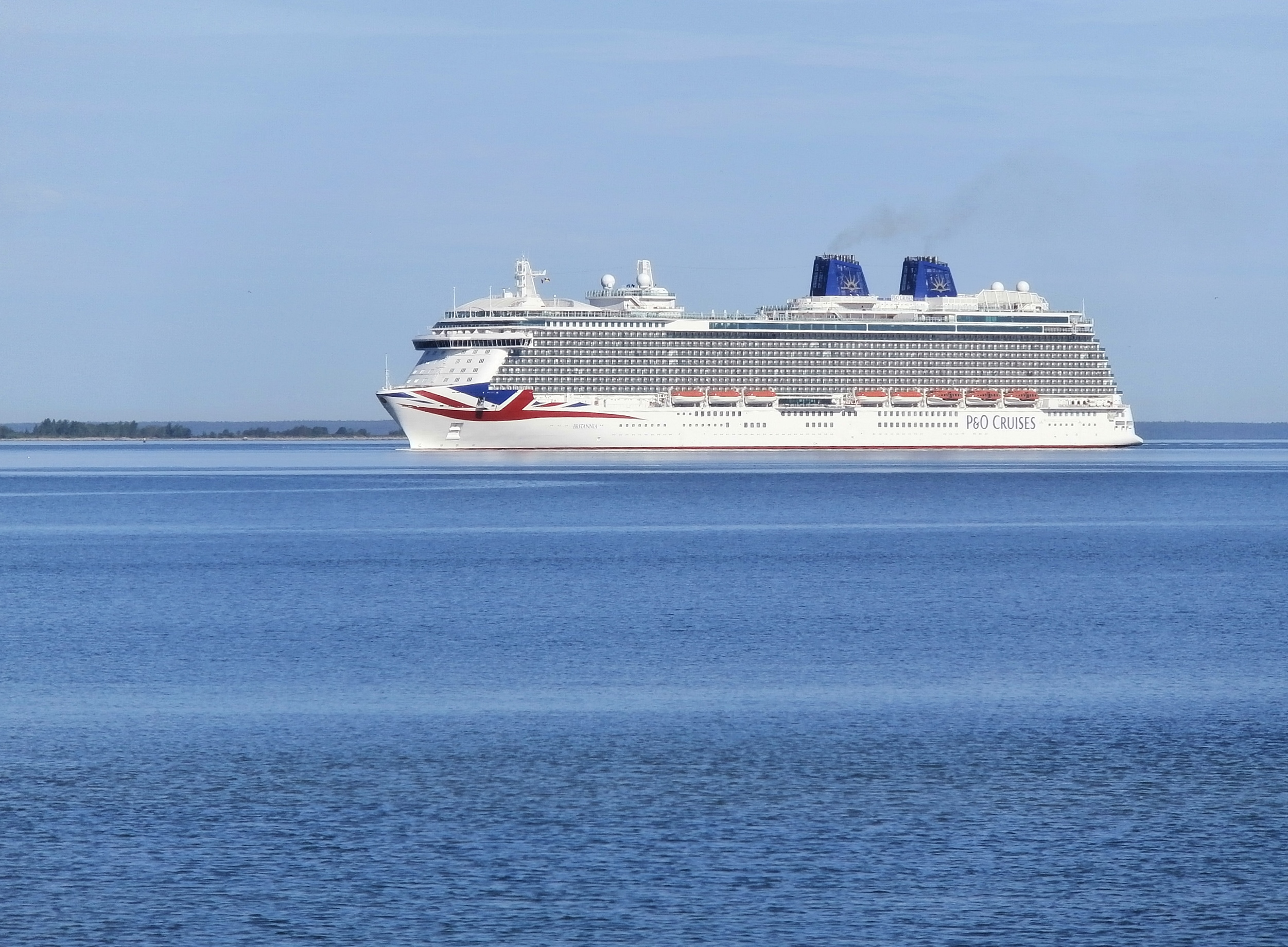 Britannia arriving at Tallinn 6 June 2015